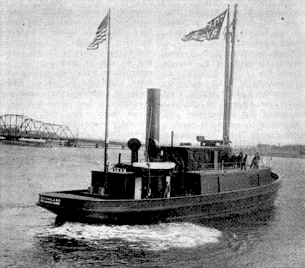 Steam lighter New England apparently during builder's trials (note Fore River pennant on foremast).